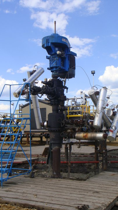 This is the producing well from a SAGD pair at Saleski